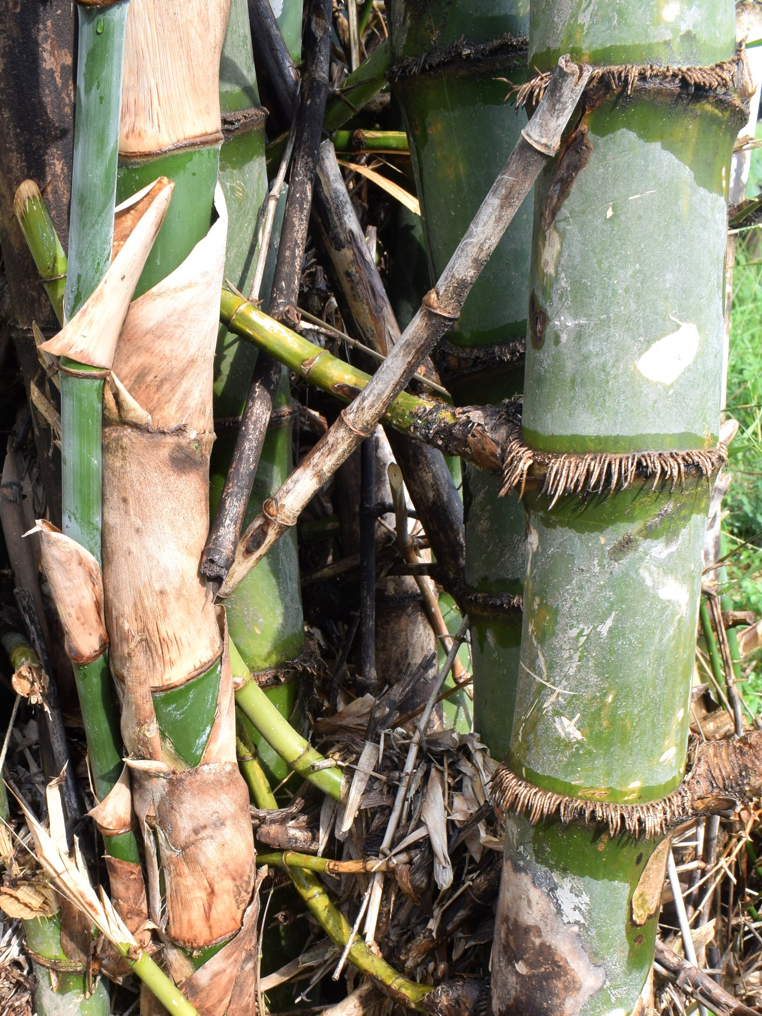 Thorny bamboo, Bambusa blumeana; lower culms. From Lumajang, East Java, Indonesia.